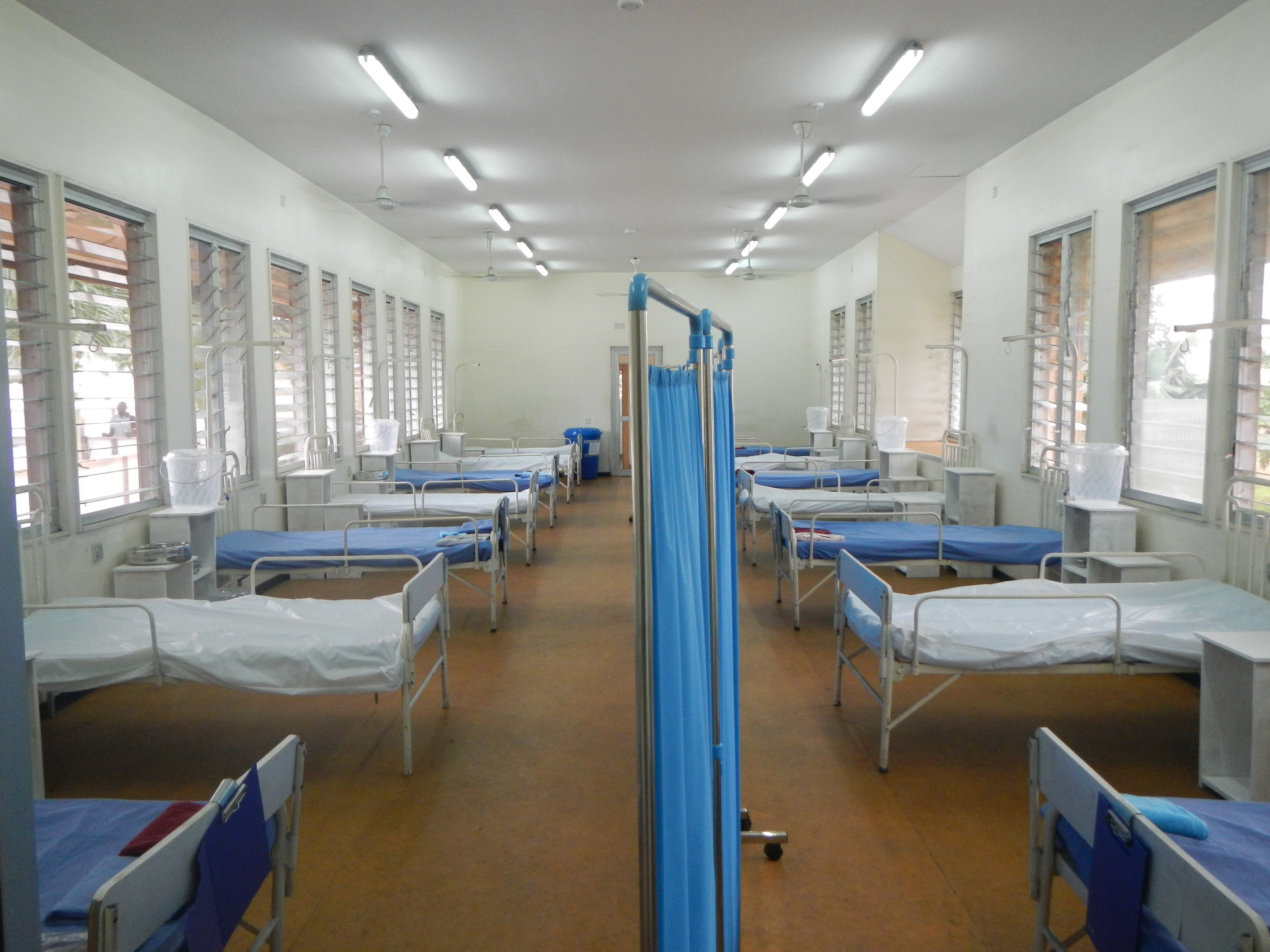 New Ebola isolation ward in Lagos, Nigeria with upgraded facilities readied for patients. Photographer: Bryan Christensen. For more information on Ebola and what CDC is doing, please visit